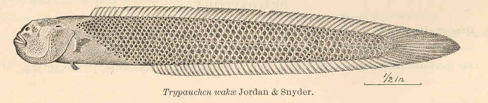 Trypauchen wakae Jordan & Snyder Subject: Trypauchen, Gobiidae Tag: Fish